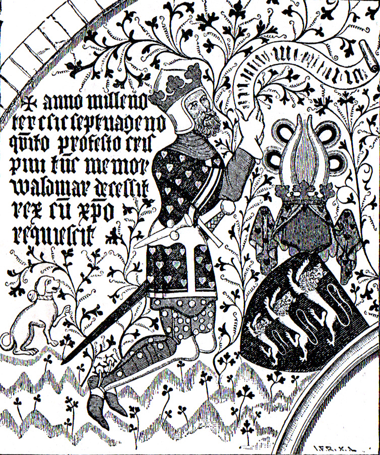 Valdemar IV of Denmark (Valdemar Atterdag) shown on 14th century fresco in Næstved's Saint Peter's Church (Sankt Peders Kirke). The fresco was created shortly after the king's death, and rediscovered in the late 19th century. The three lions in the king's coat of arms are 19th century reconstructions based on a preserved seal used by king Valdemar.